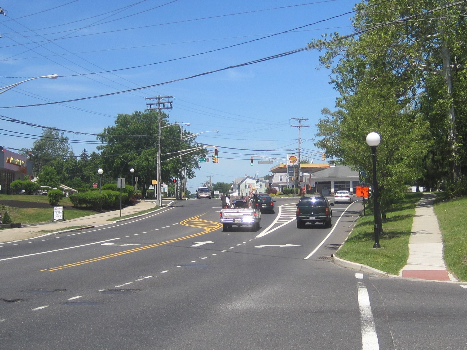 Photo showing westbound County Route 530 in Browns Mills (within Pemberton Township) approaching its intersection with the southern terminus of County Route 545.